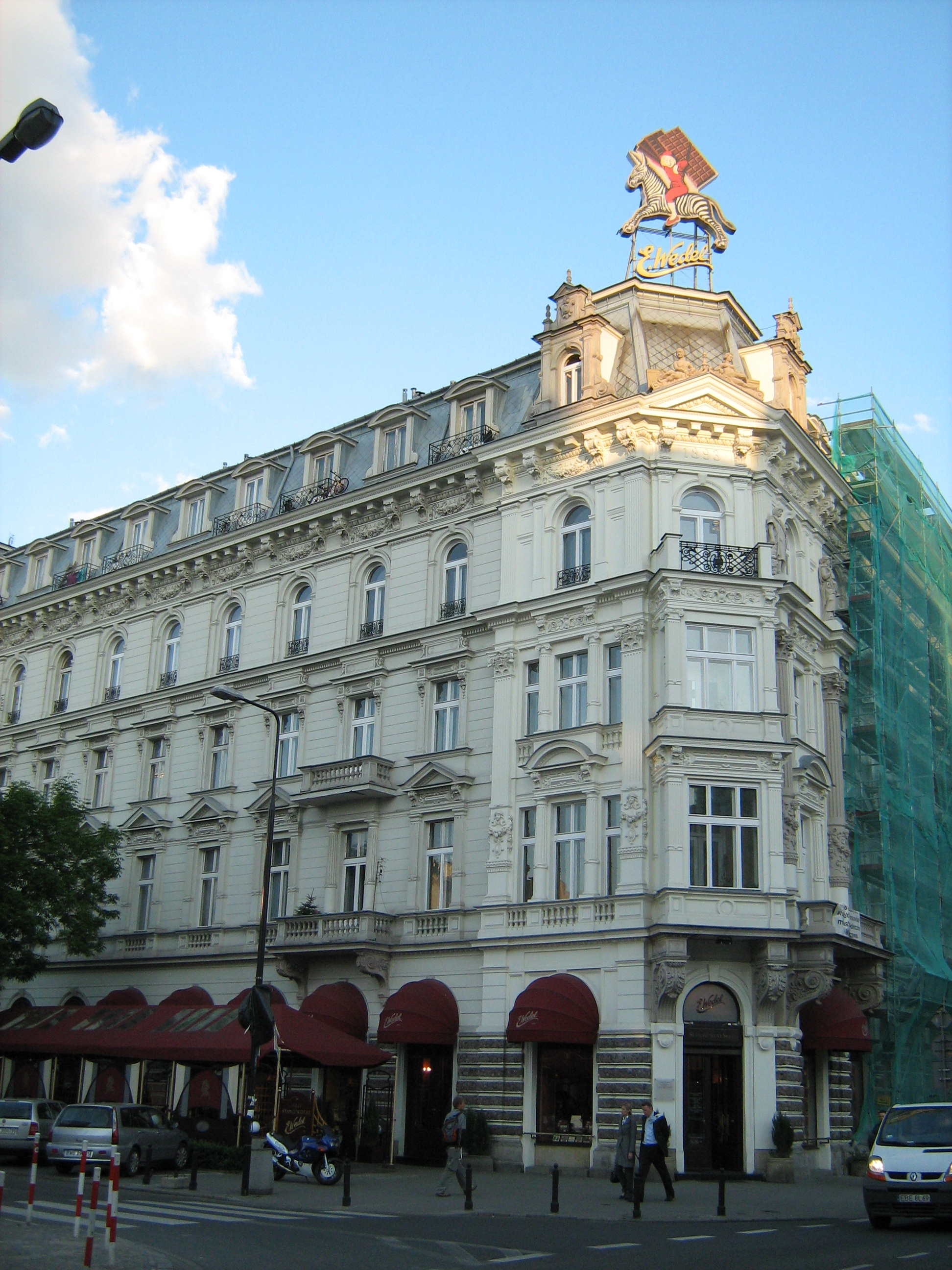 the Wedel Building in Warsaw Poland